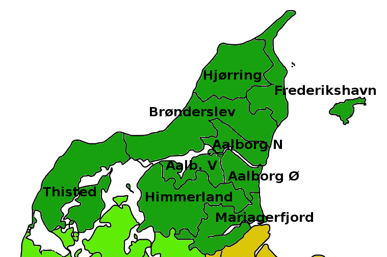 The Nordjyllands Storkreds constituency in Denmark